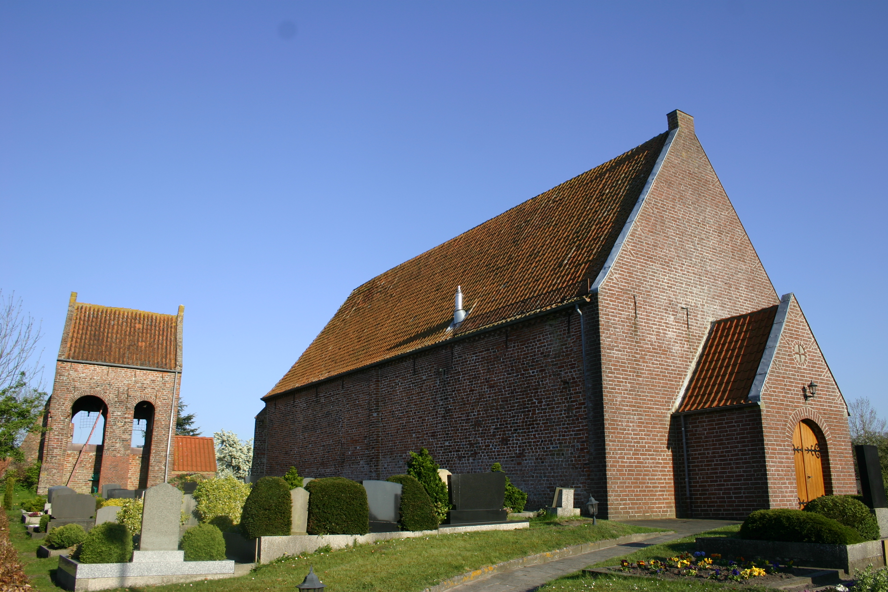 The Evangelical Reformed Simonswolde Church in Simonswolde (a locality of Ihlow), district of Aurich, East Frisia, Lower Saxony, Germany, is owned and used by a Reformed congregation within the Evangelical Reformed Church – Synod of Reformed Churches in Bavaria and Northwestern Germany.